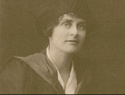 Portrait of Violet Mary Doudney taken on her graduation at St Hilda's College at the University of Oxford in 1921